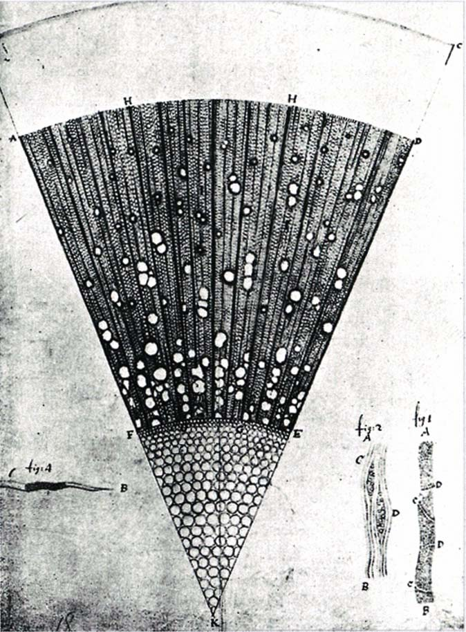 Microscopic Section through one year old ash (Fraxinus) wood.